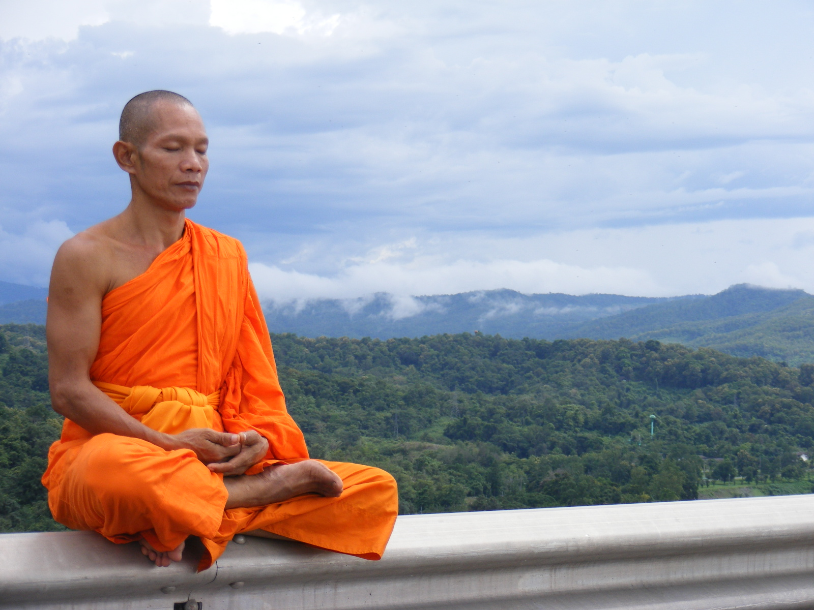 Phra Ajan Jerapunyo-Abbot of Watkungtaphao in Sirikit DamLocation: Sirikit Dam Thailand.